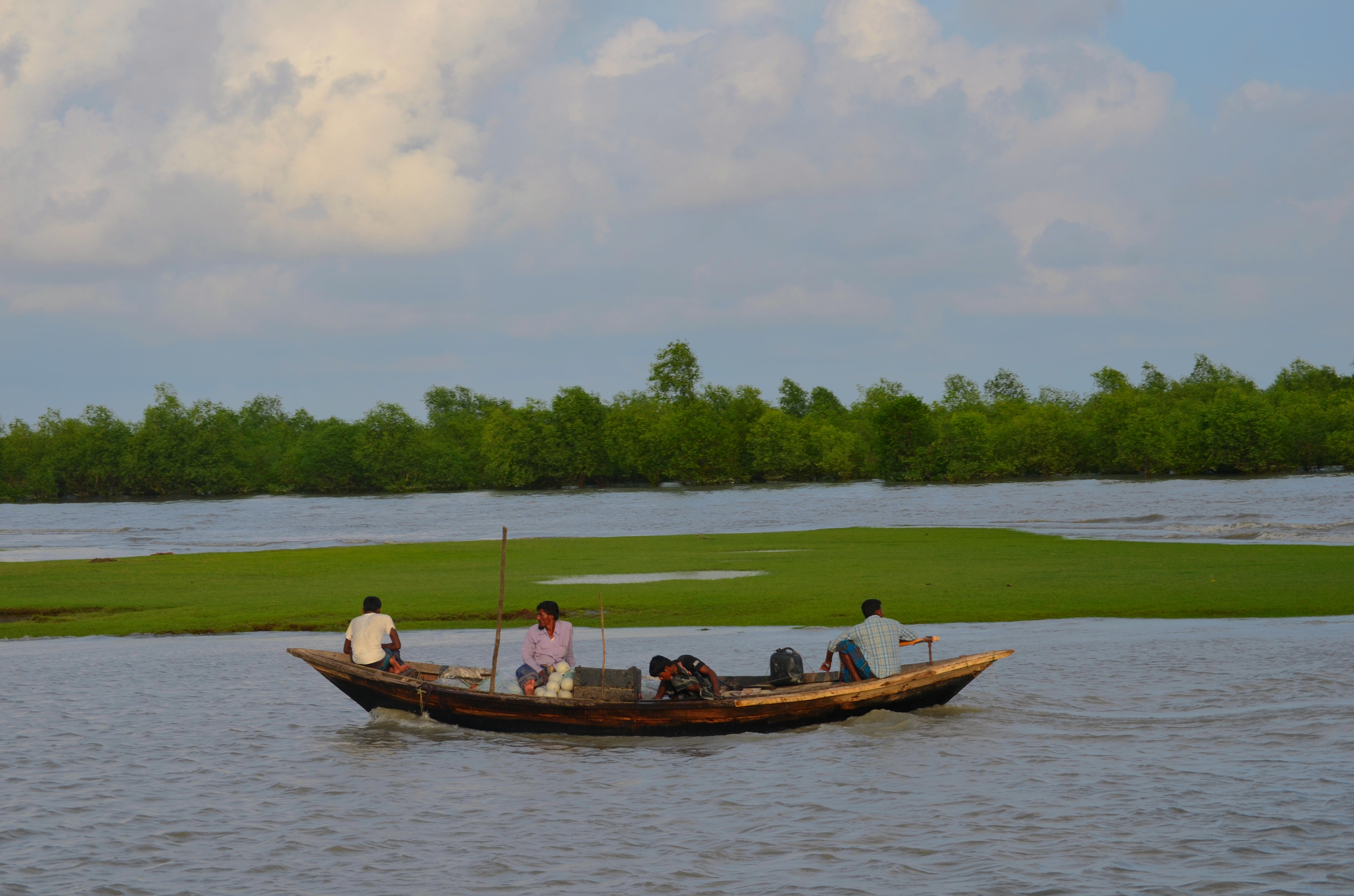 They are work on meghna river in bangladesh.